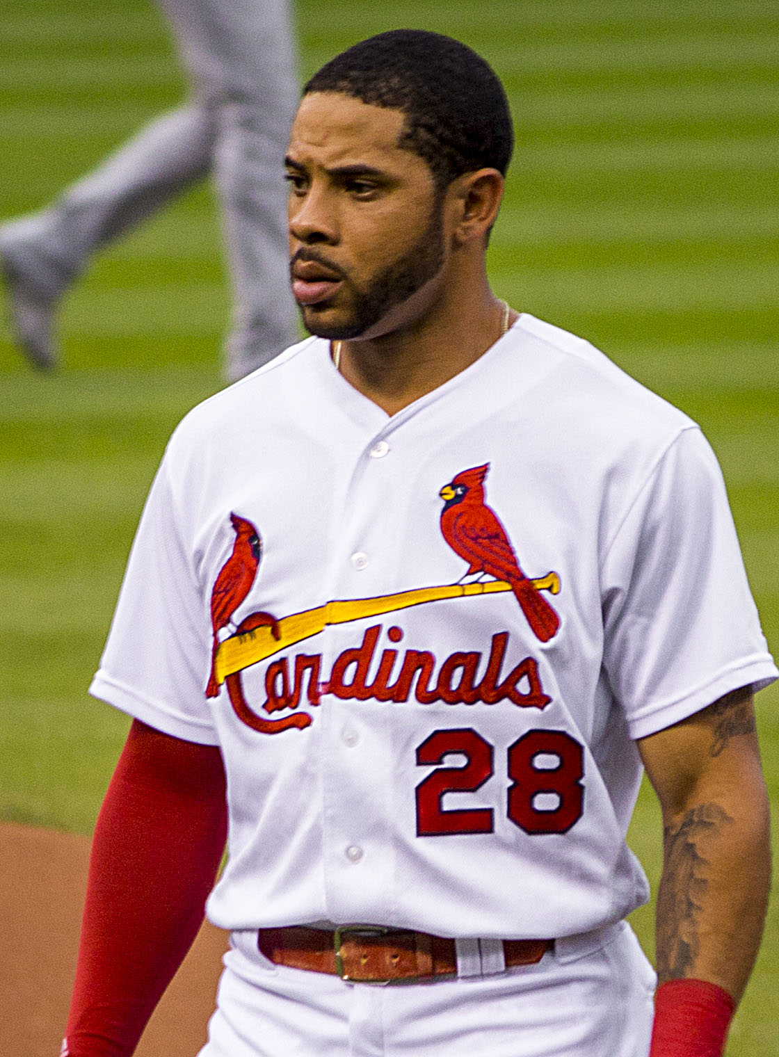 Cardinals Outfielder Tommy Pham. 7-5-2017